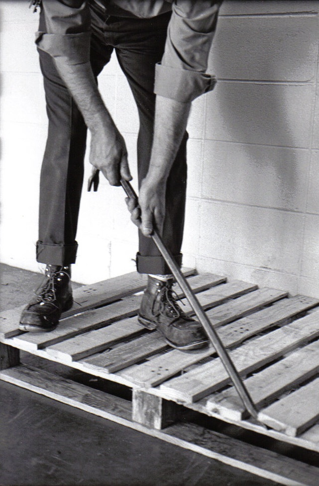 black / white photograph of a crowbar's usage.